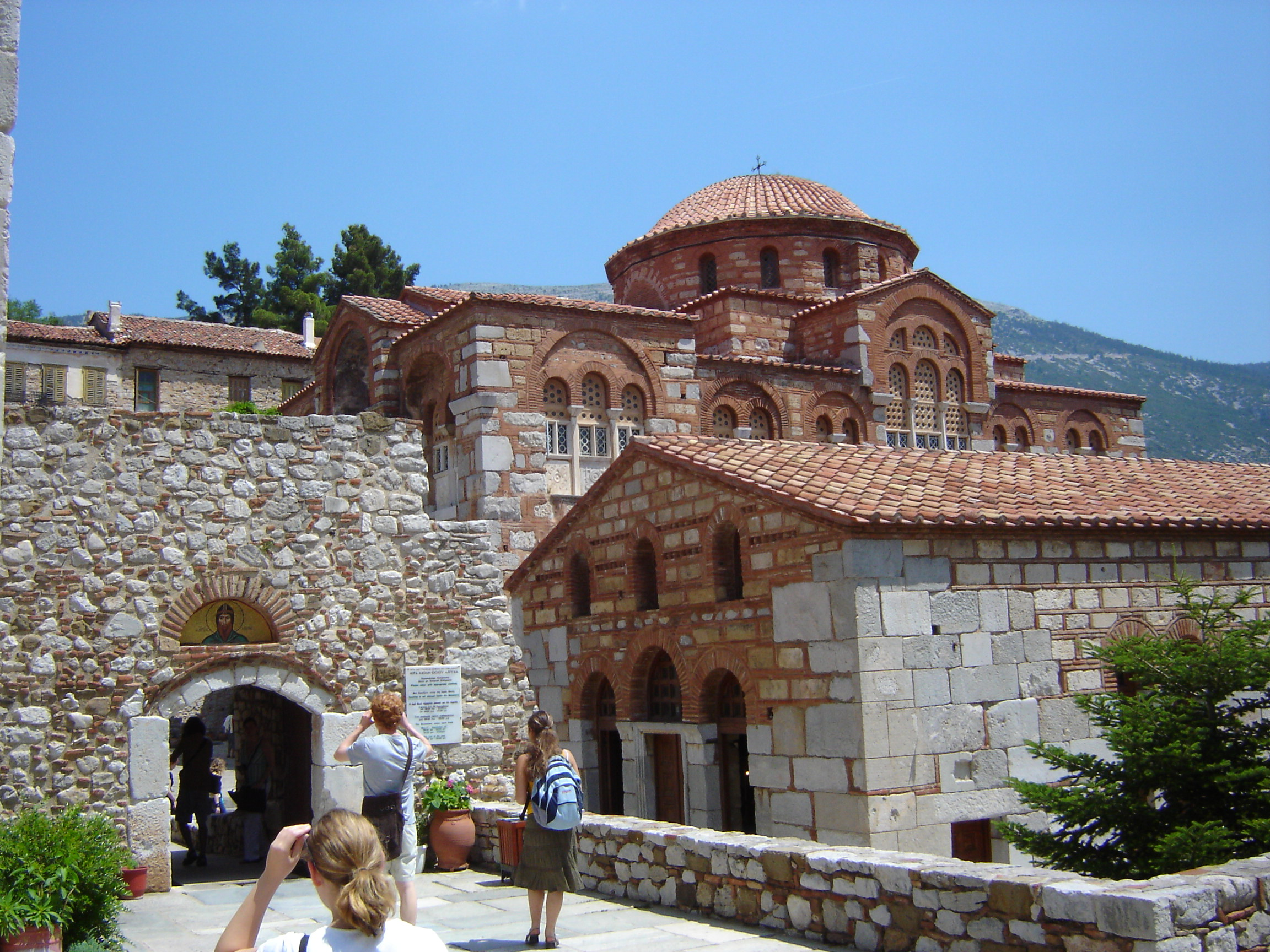 Hosios Lukas Monastery, Greece Source: Self-made (June 2005) Author: BishkekRocks 15:45, 26 December 2005 (UTC)